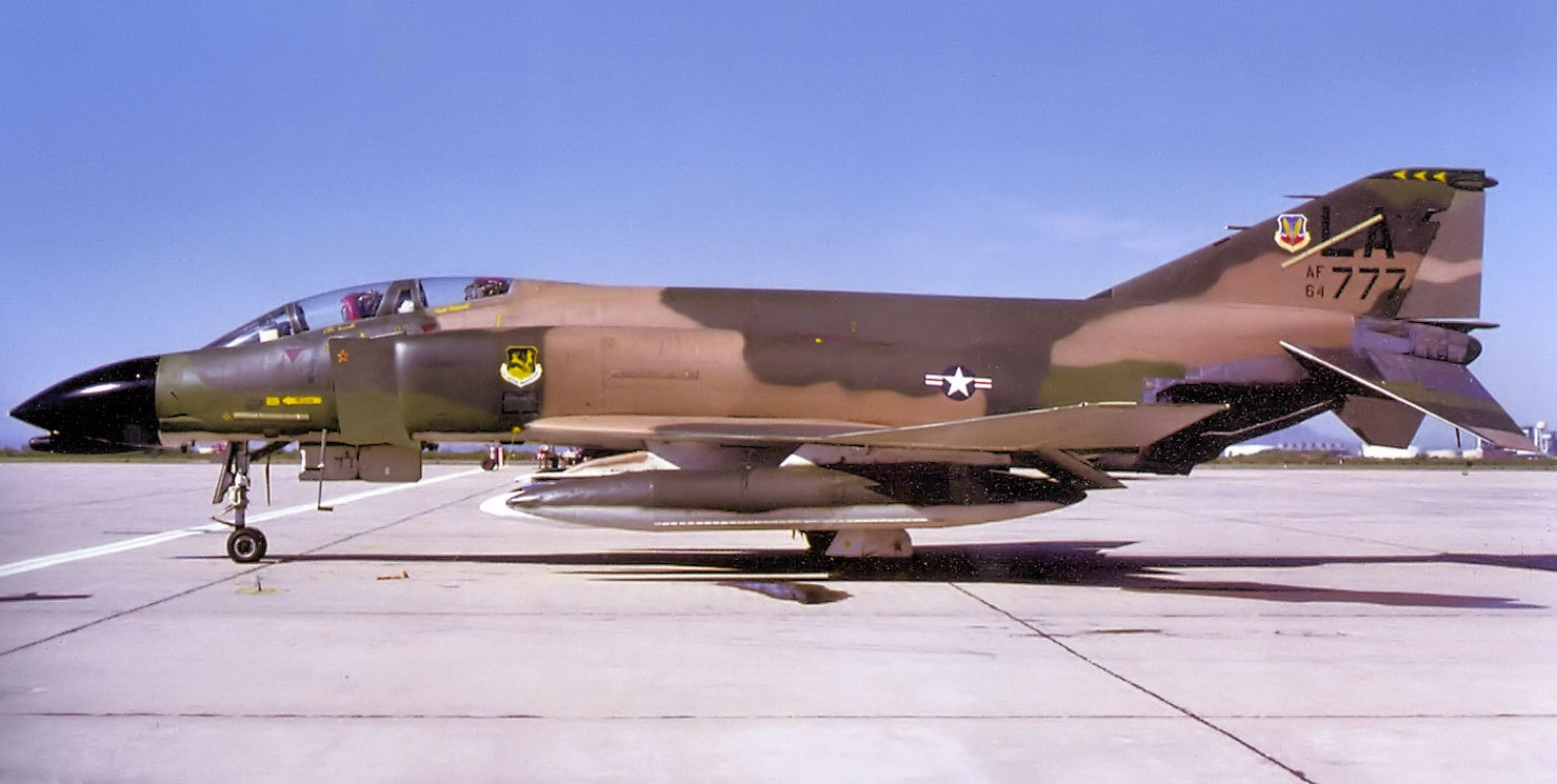 310th Fighter Squadron McDonnell F-4C-23-MC Phantom 64-0777, 1980. Note the red star on the intake, noting this aircraft shot down a MiG aircraft during the Vietnam War. Retired to AMARC as FP0363 Oct 24, 1989